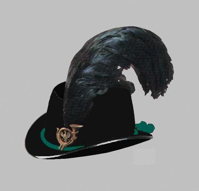 Parade dress hat for the k.u.k. Kaiserjäger